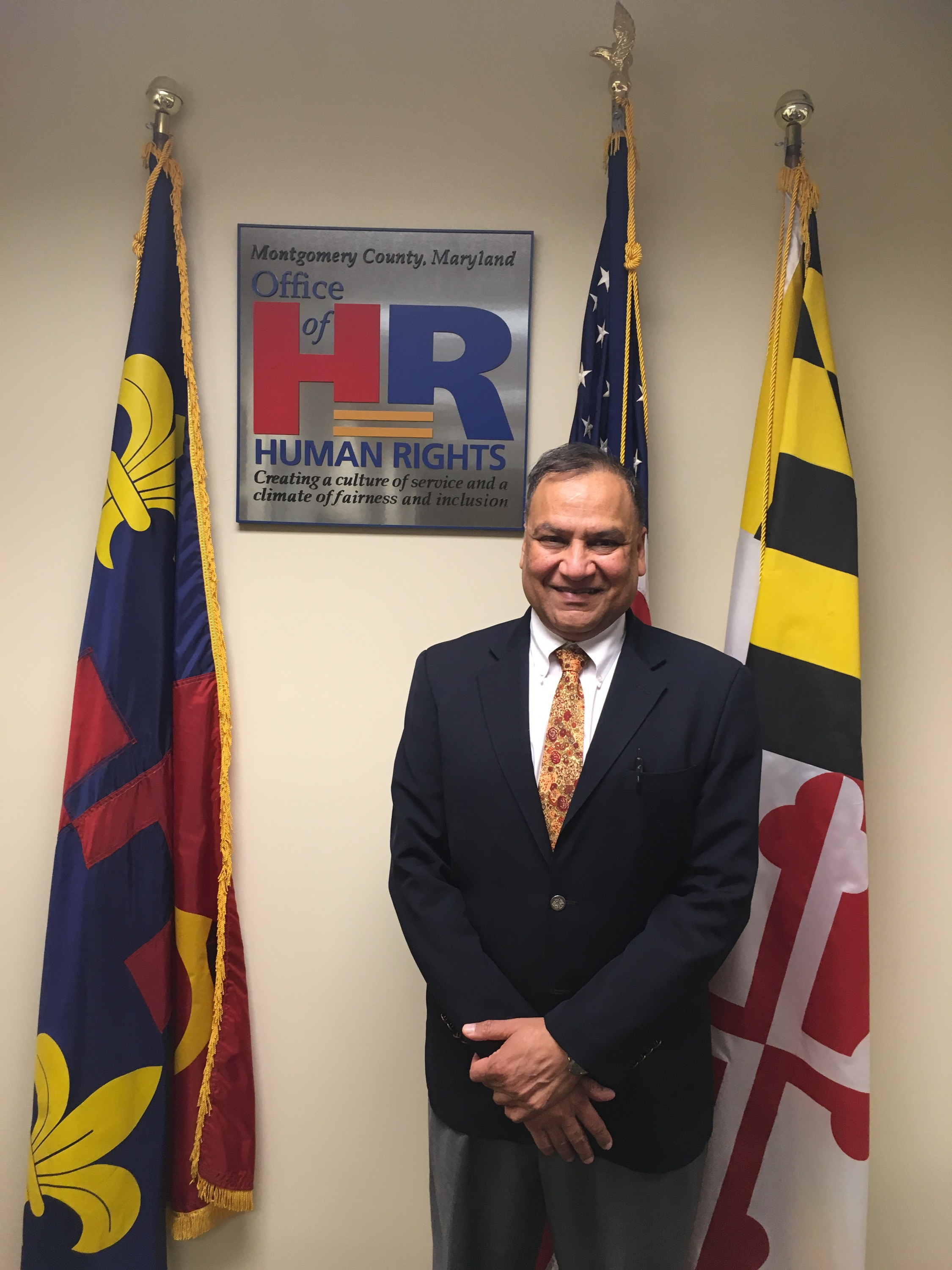 Dr. Rahul M. Jindal, MD, PhD, MBA at Montgomery County Maryland Office of Human Rights